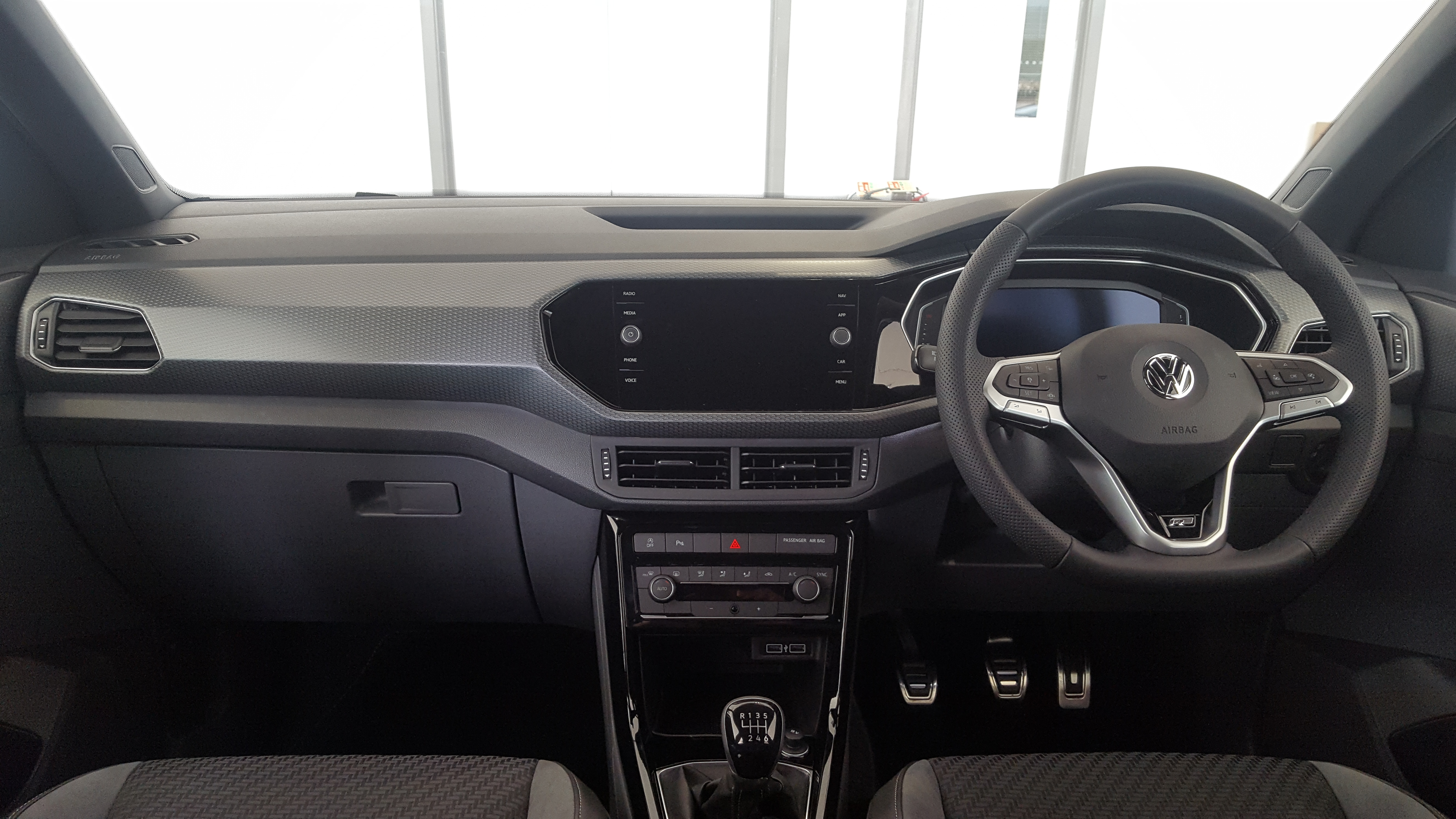 2019 Volkswagen T-Cross R-Line 1.0 Interior Taken in Leamington Spa